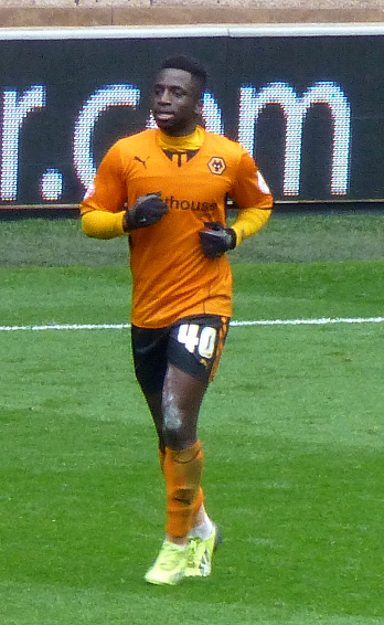 Nouha Dicko - Wolverhampton Wanderers vs Peterborough United (05/04/2014)